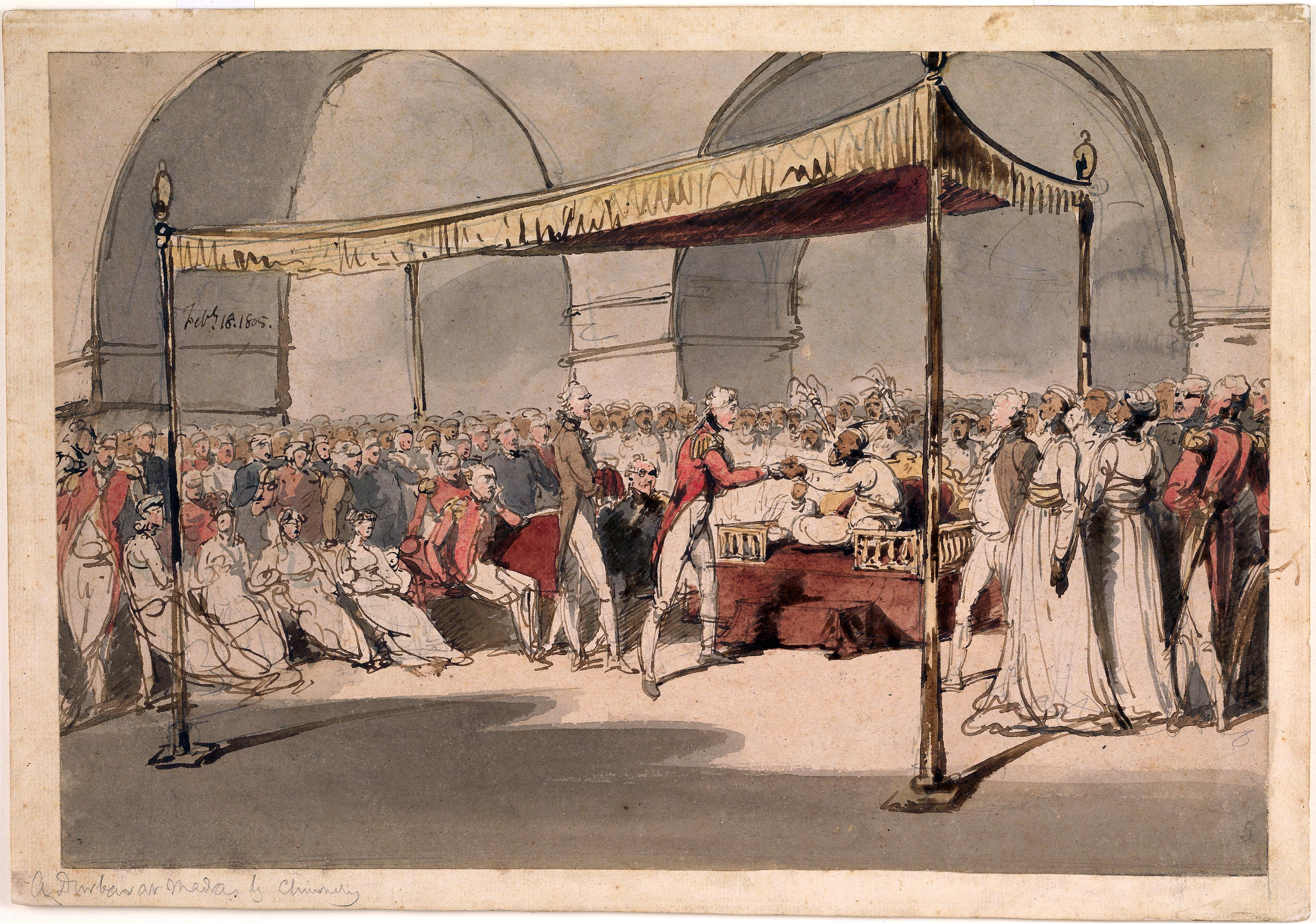 "Major-General the Hon. Arthur Wellesley being received in durbar at the Chepauk Palace Madras by Azim al-Daula, Nawab of the Carnatic, 18th February 1805,". It was apparently a study for a much larger historical portrait which Chinnery never completed.